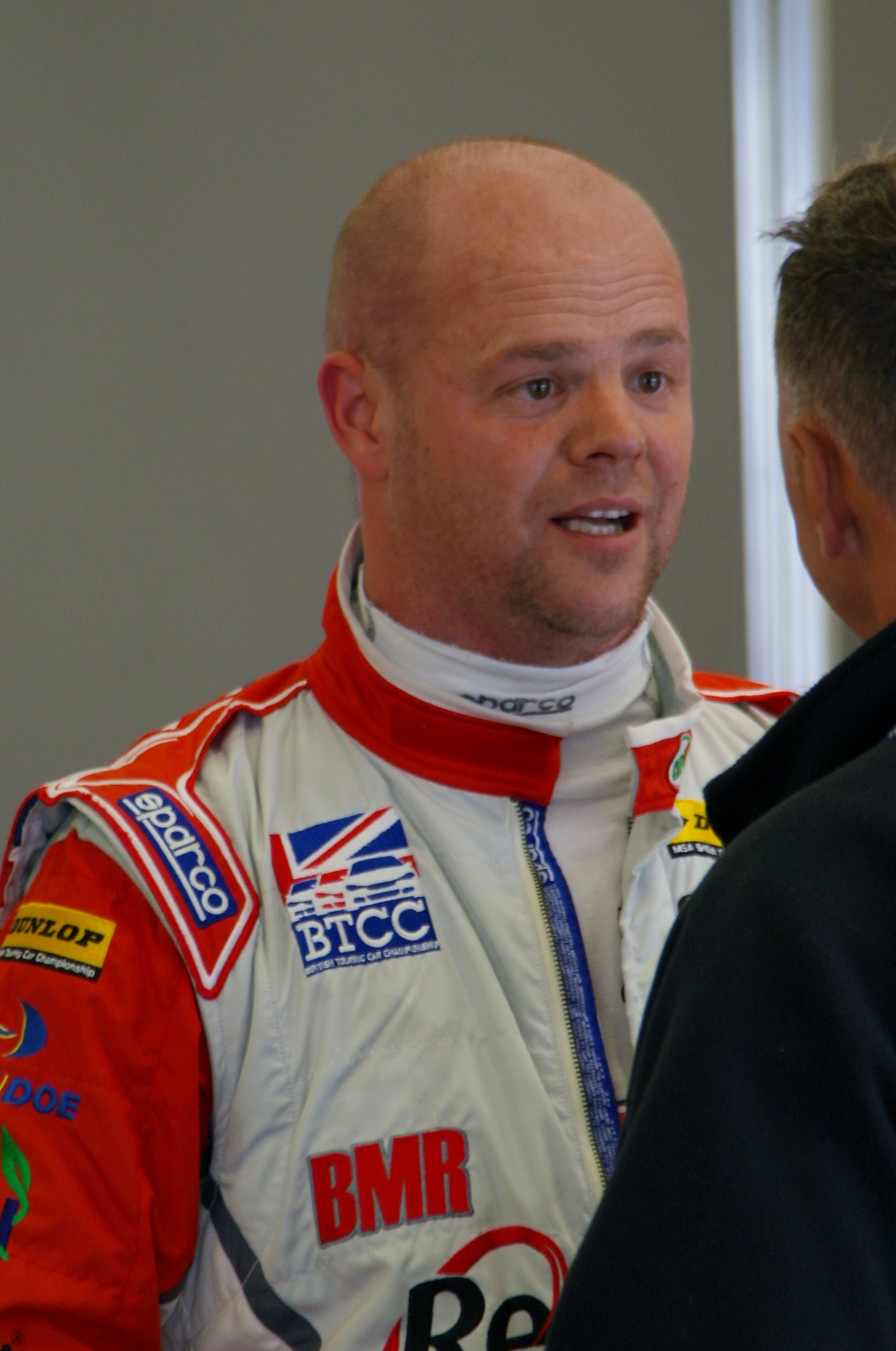 Warren Scott at the Silverstone round of the 2013 British Touring Car Championship season, Saturday 28th September.